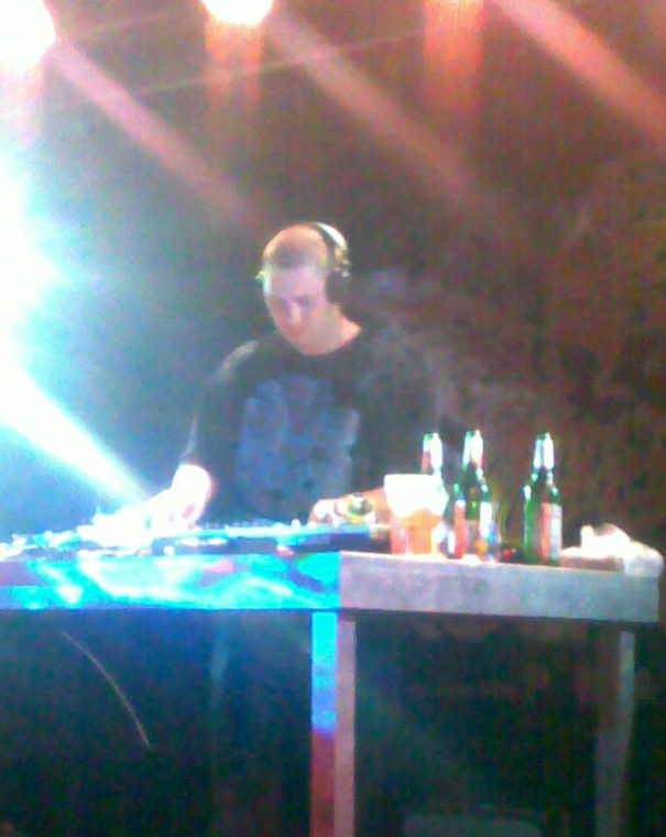 DJ Fatte performing at Rock Cafe in Prague 12/14/12